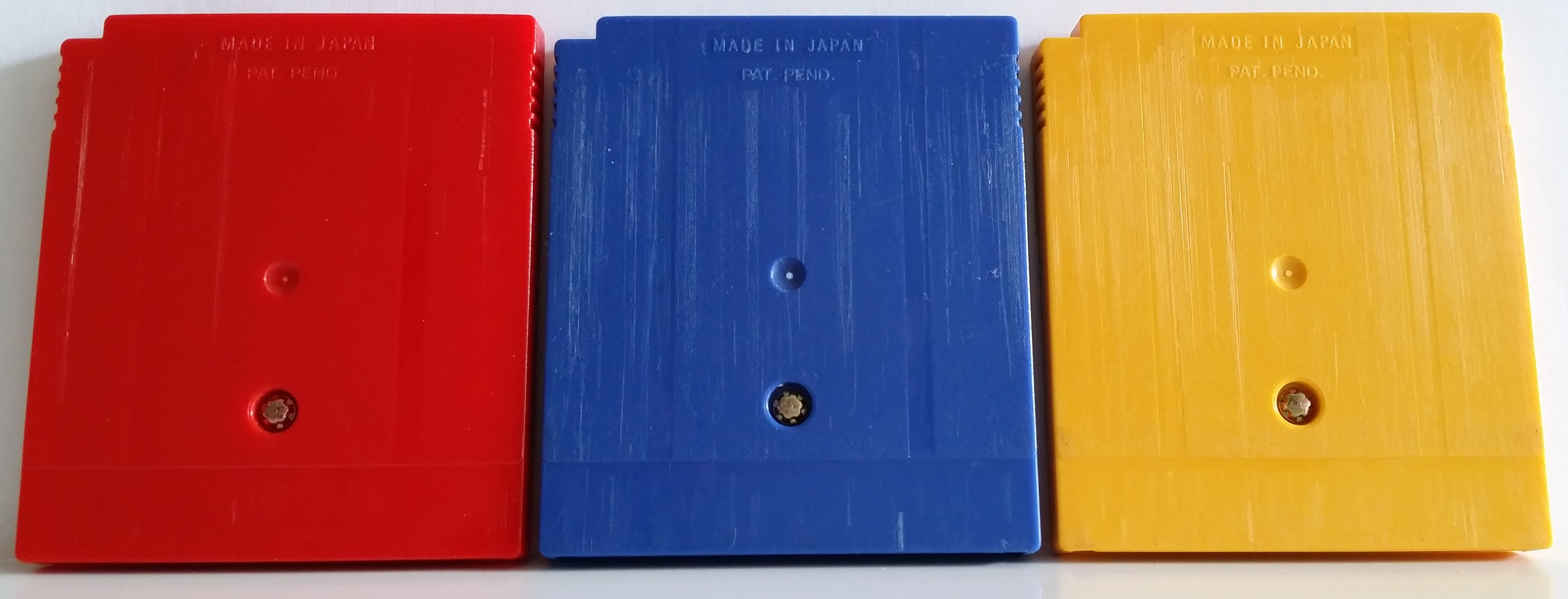 The cartridge back of the European (PAL) copies of the Game Boy video games Pokémon Red, Blue and Yellow.